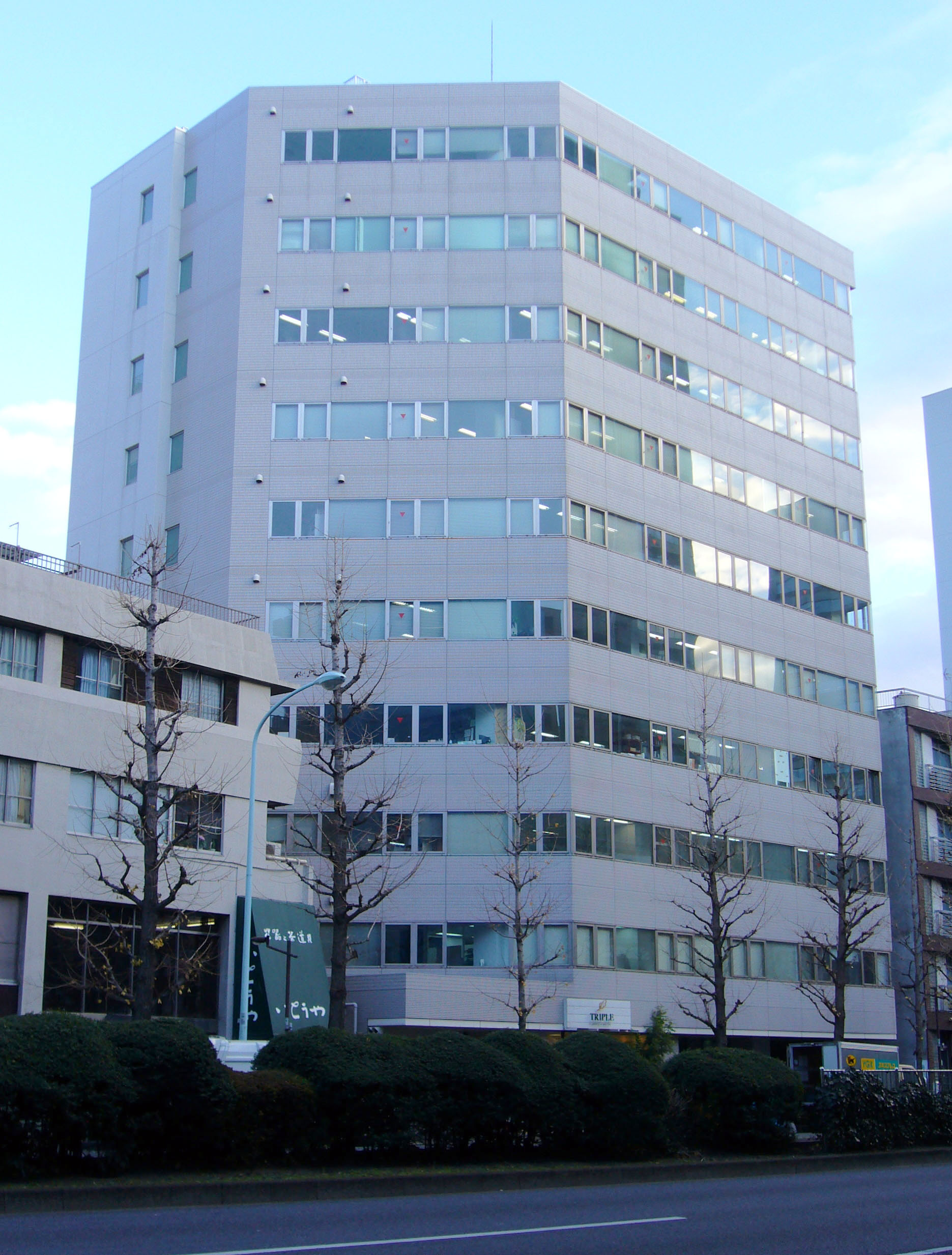 Kasuga Business Center Building (春日ビジネスセンタービル), an office building in Tokyo, Japan. It has the headquarters of Sumisho Drug Stores Inc. (Tomod's). - Kasuga Business Center Building, 1-15-15, Nishikata, Bunkyo-ku, Tokyo